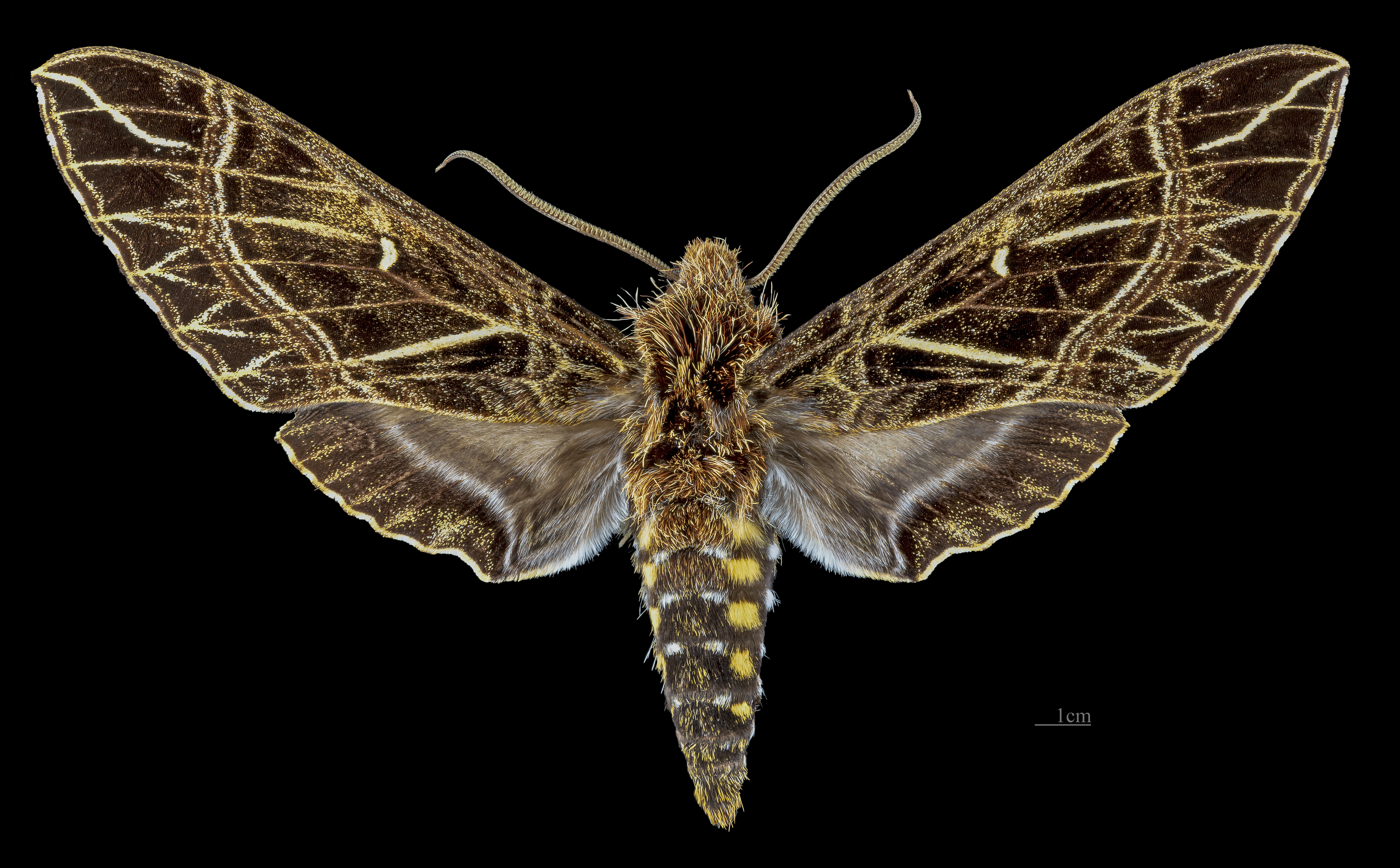 Euryglottis aper - Dorsal side Collection of the Mathematician Laurent Schwartz